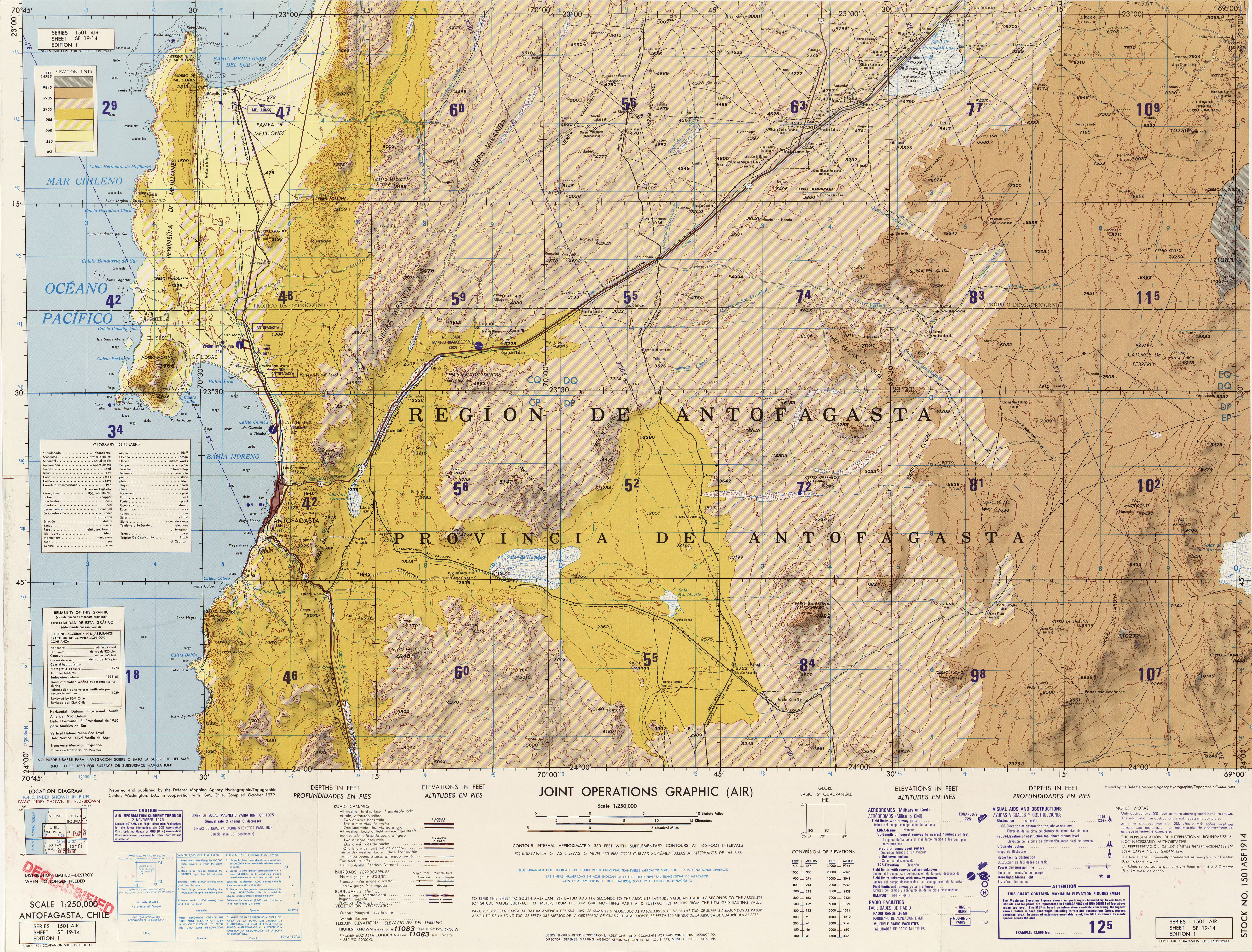 Antofagasta, Mejillones